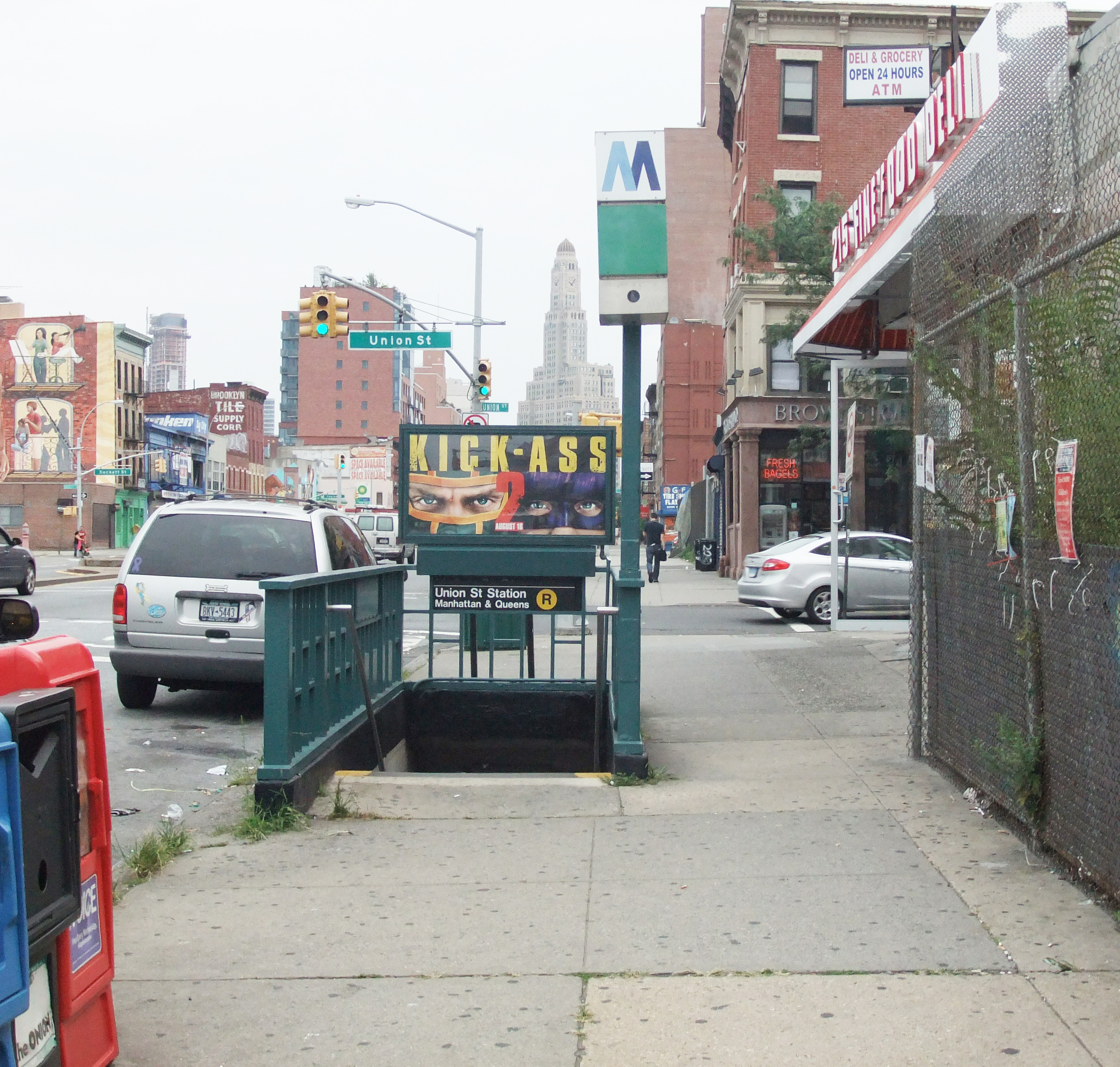 Entrance to the uptown BMT platform at Union Street and 4th Avenue